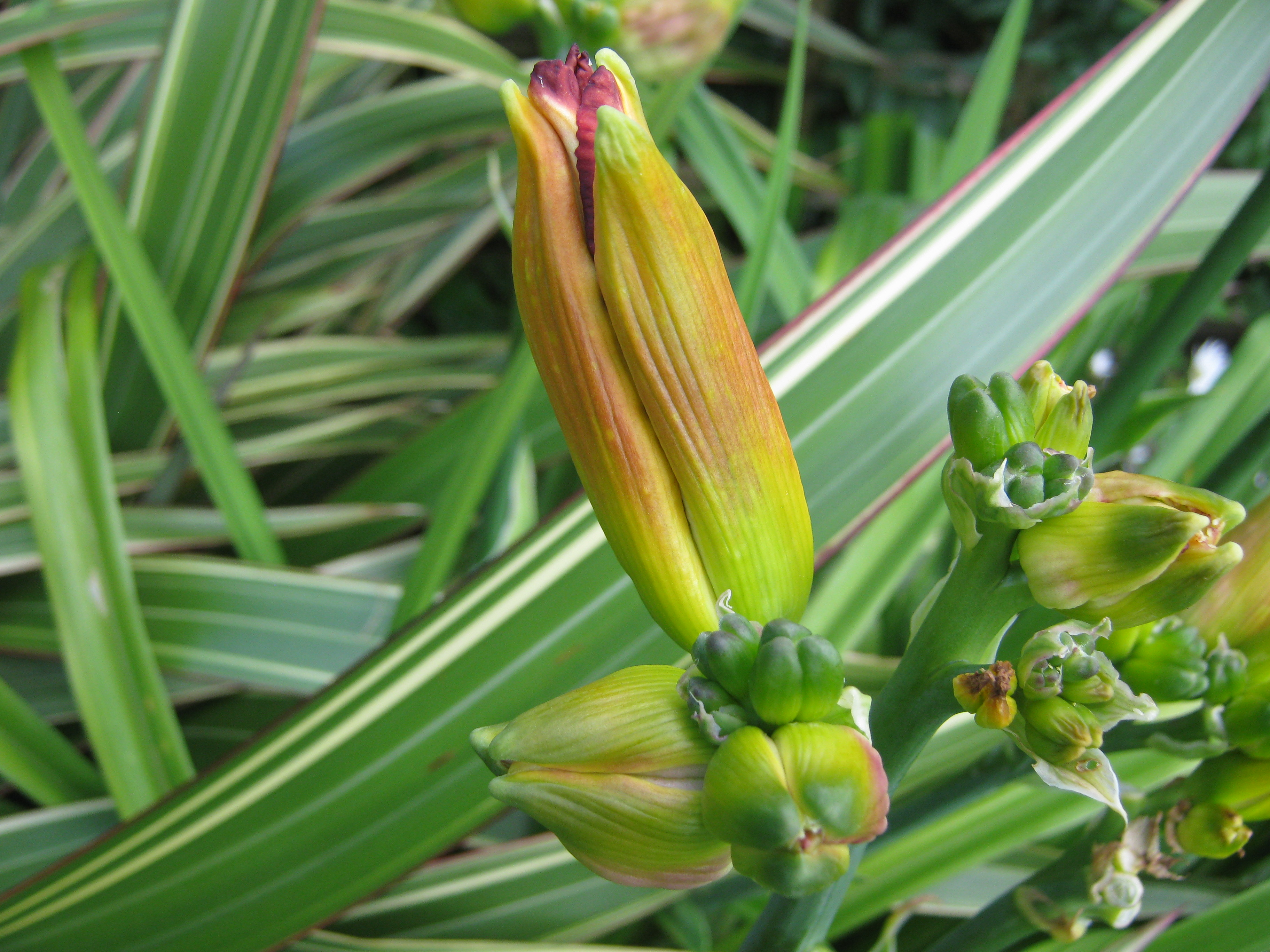 Buds of a hemerocallis cultivar showing bud distorted by infestation of Hemerocallis gall midge (cotinaria quinquenotata)